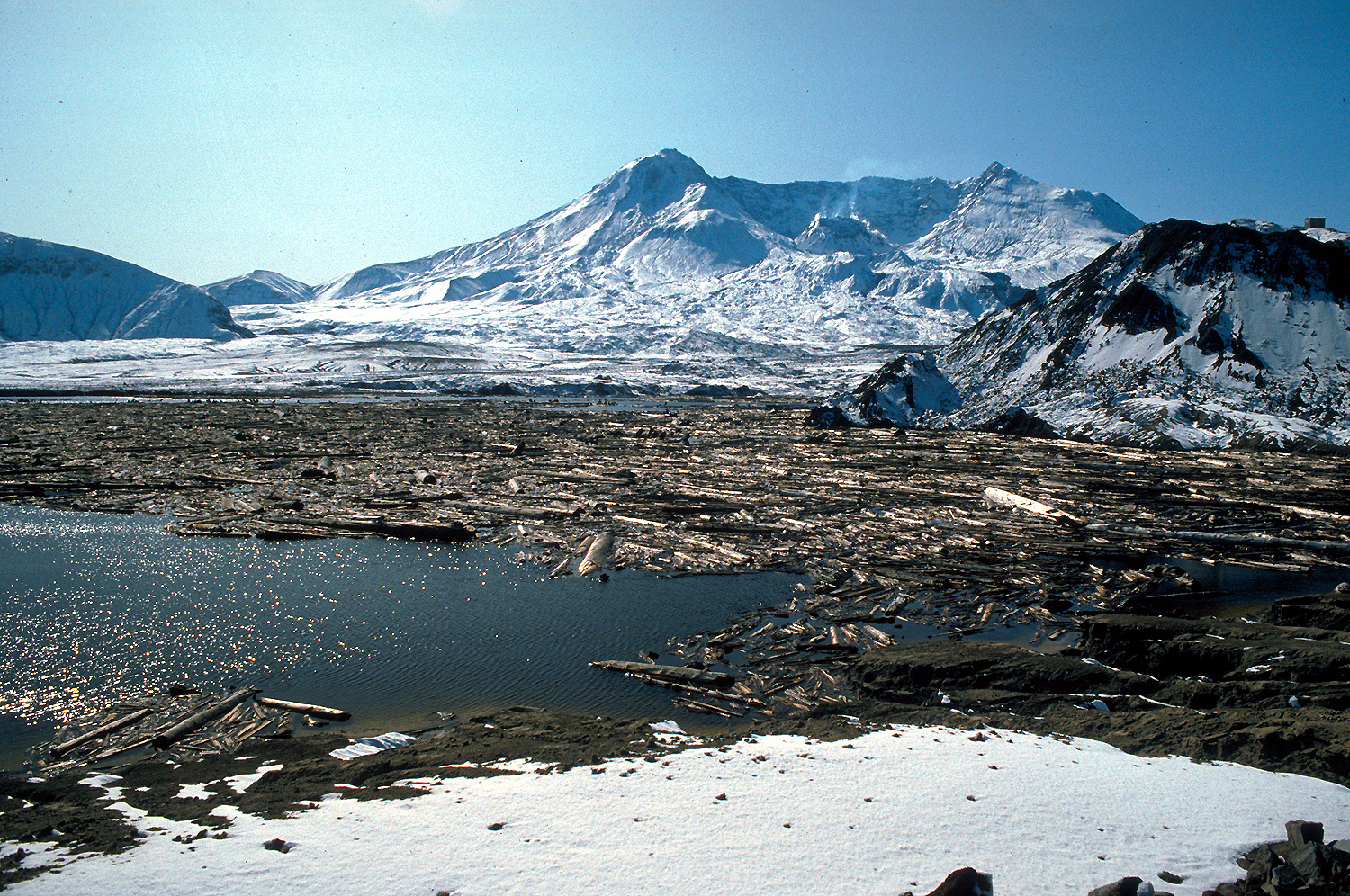 Spirit Lake on the slopes of Mt. St. Helens in Washington State, USA. This photo was taken two years after the eruption and shows the ruined lake filled with debris from the eruption.